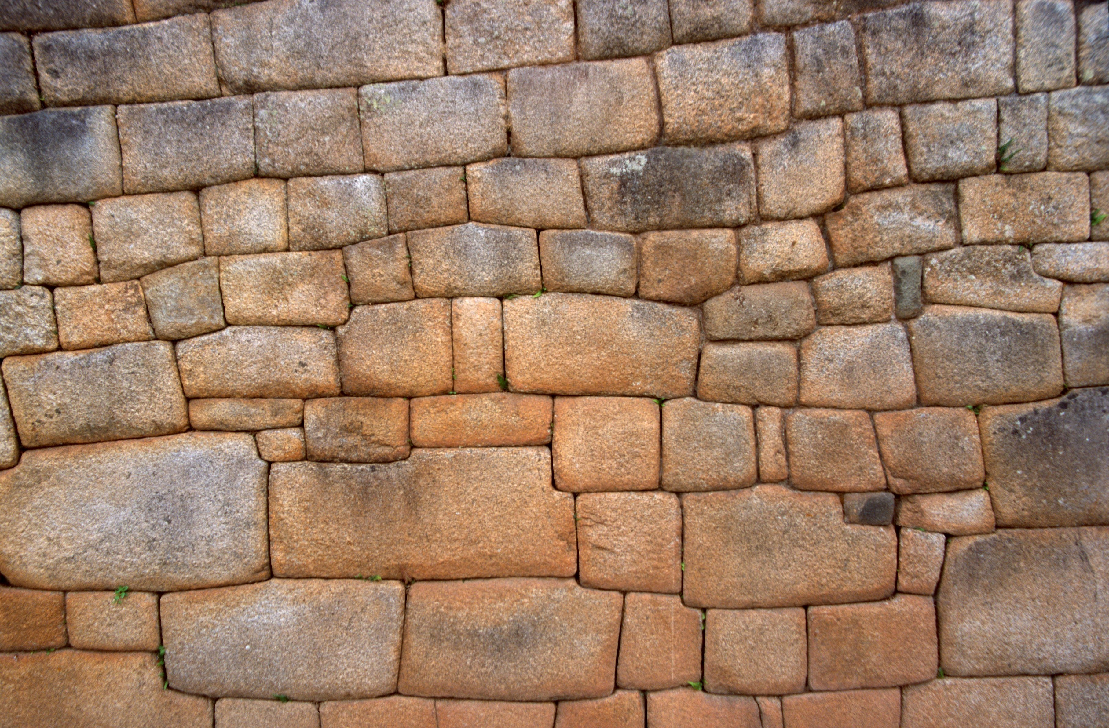 Machu Picchu, Perú. Wall masonery detail.